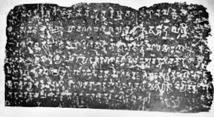 Bhanugupta Eran stone pillar inscription. This inscription mentions the death of chieftain or noble Goparaja in a battle the 191st year without mentioning calendar system. This is generally accepted as Gupta era 191, or 510 CE. Fleet published it, and proposed that this one the earliest recorded instances of Sati in its line 7. Alexander Cunningham did not comment on this Bhanugupta-Goparaja inscription, but did comment on three Sati stones he found and dated to the 14th to 18th centuries. The Bhanugupta inscription does not use the word sati or equivalent. The inscription was interpolated by Fleet for translation. His translation in the first edition was later revised in the text's second edition. Line 7 (actual surviving inscription): bhakt=anurakta cha priya cha kanta bhr=alag=anugat=agirsim Line 7 (Fleet's interpolation): bhakt=anurakta ch priya cha kanta bh[a]r[y]=a[va]lag[n]=anugat=ag[n]ir[a]sim Fleet's translation of the interpolated text (1st edition): and (his) devoted, attached, beloved, and beauteous wife, in close companionship, accompanied (him) onto the funeral pyre. Fleet's translation of the interpolated text (2nd edition): and (his) devoted, attached, beloved, and beauteous wife, clinging (to him), entered into the mass of fire (funeral pyre).